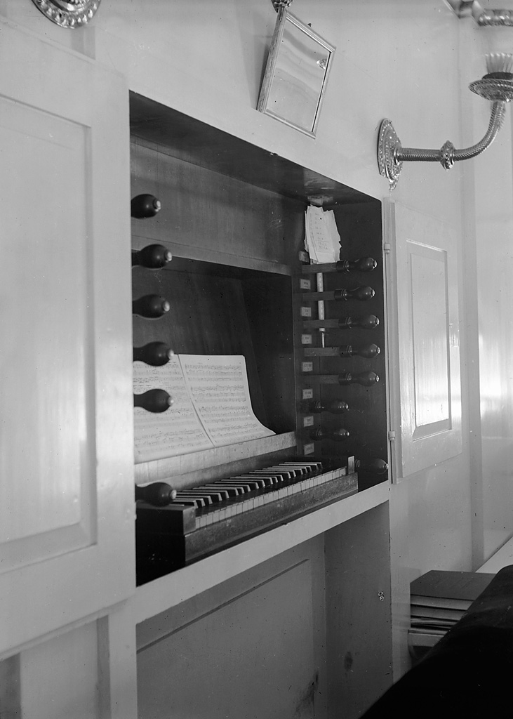 The console of the organ in Hult church. Both the church and the organ are from 1841. Spelbordet i orgeln i Hults kyrka. Både kyrkan och orgeln är från 1841. Parish (socken): Hult Province (landskap): Småland Municipality (kommun): Eksjö County (län): Jönköping Photograph by: Einar Erici Date: 1943 Format: Glass plate negative Persistent URL: Read more about the photo database (in english)